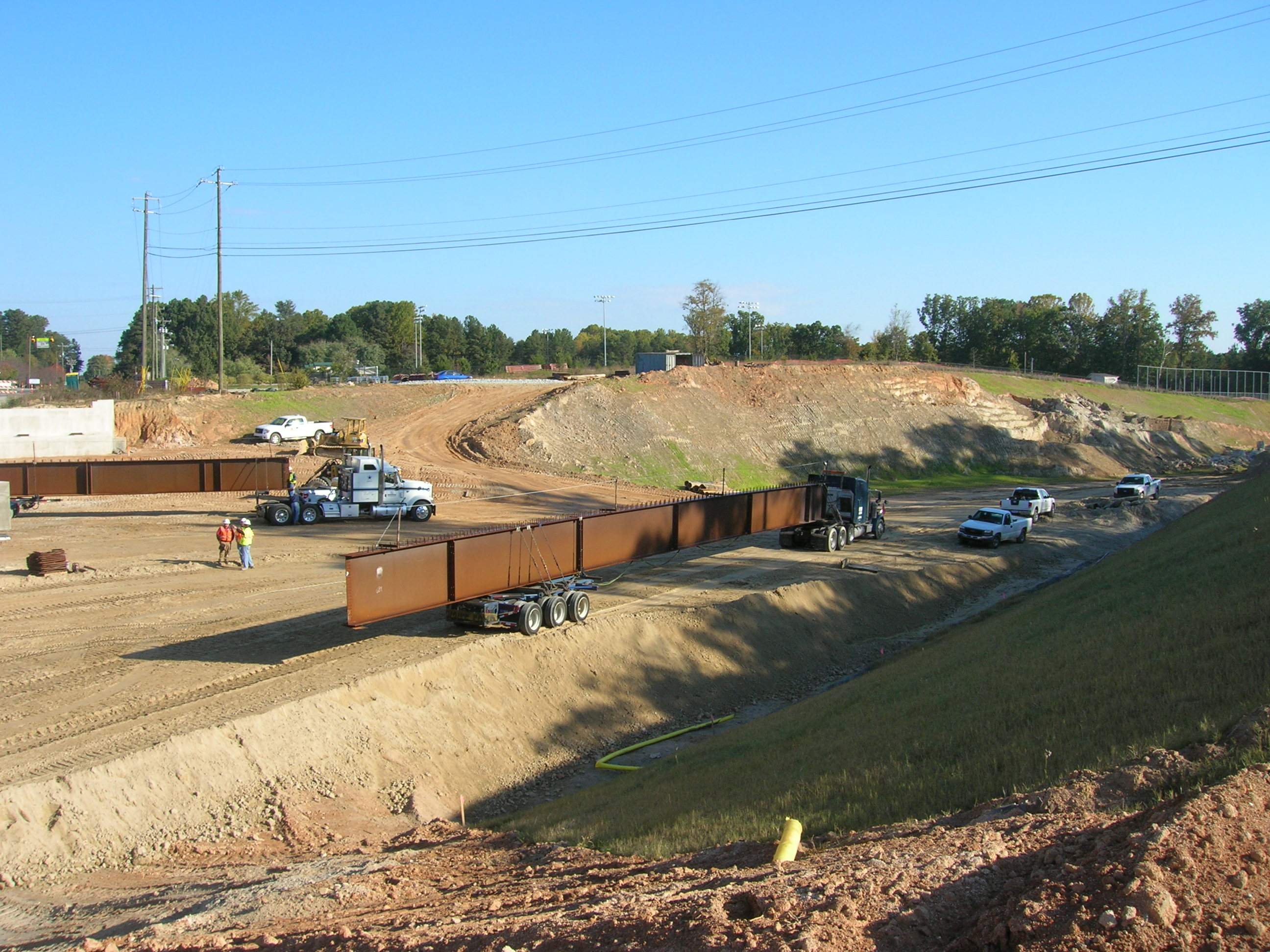 Beam Setting operation for Phase one of the Horsepen Creek Road Bridge under Construction in Conjunction with the Greensboro Western Loop